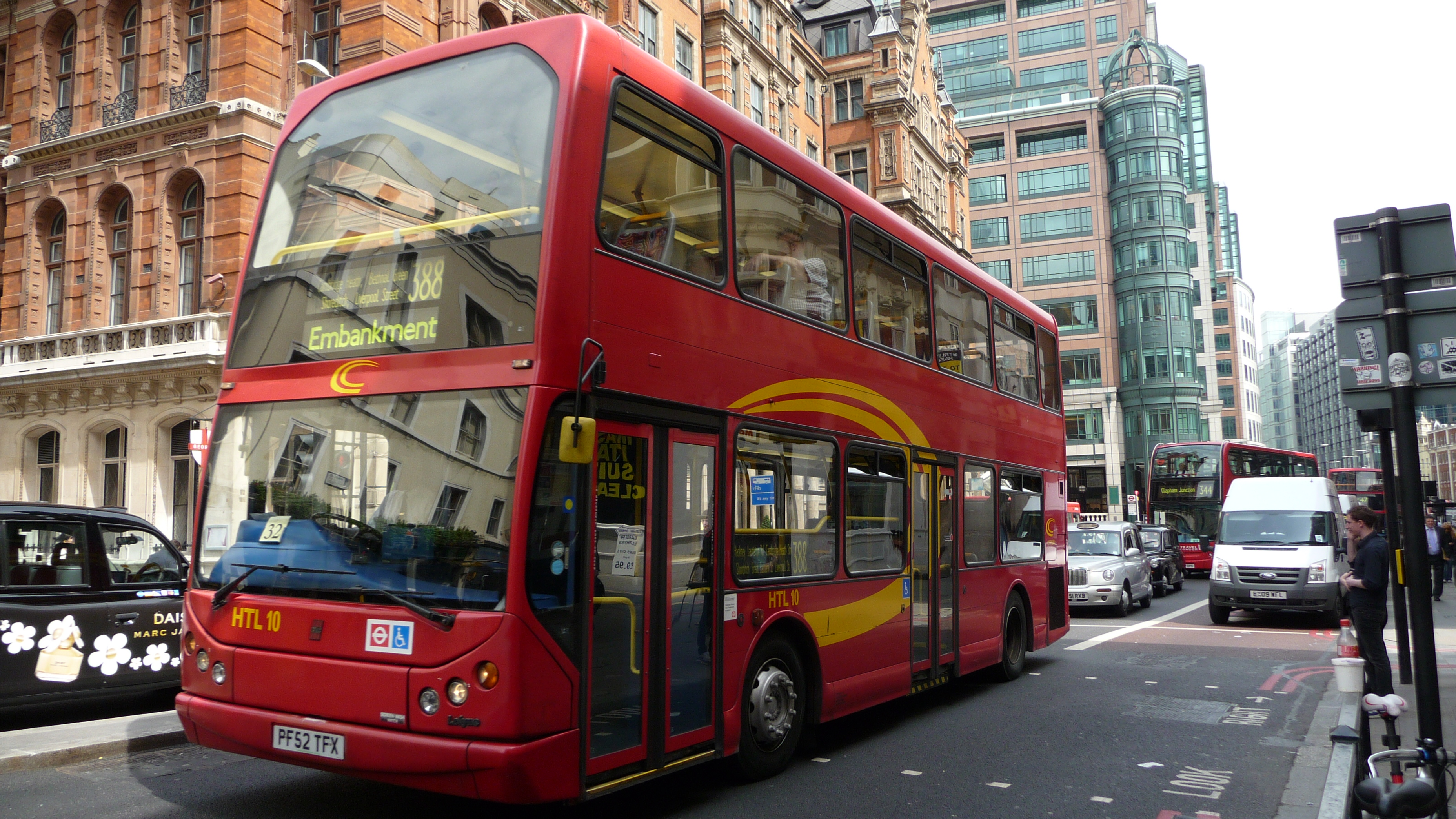 CT Plus HTL10 (PF52 TFX), a Dennis Trident/East Lancs Myllennium Lolyne, in Bishopsgate, City of London, at the junction with Liverpool Street on route 388.